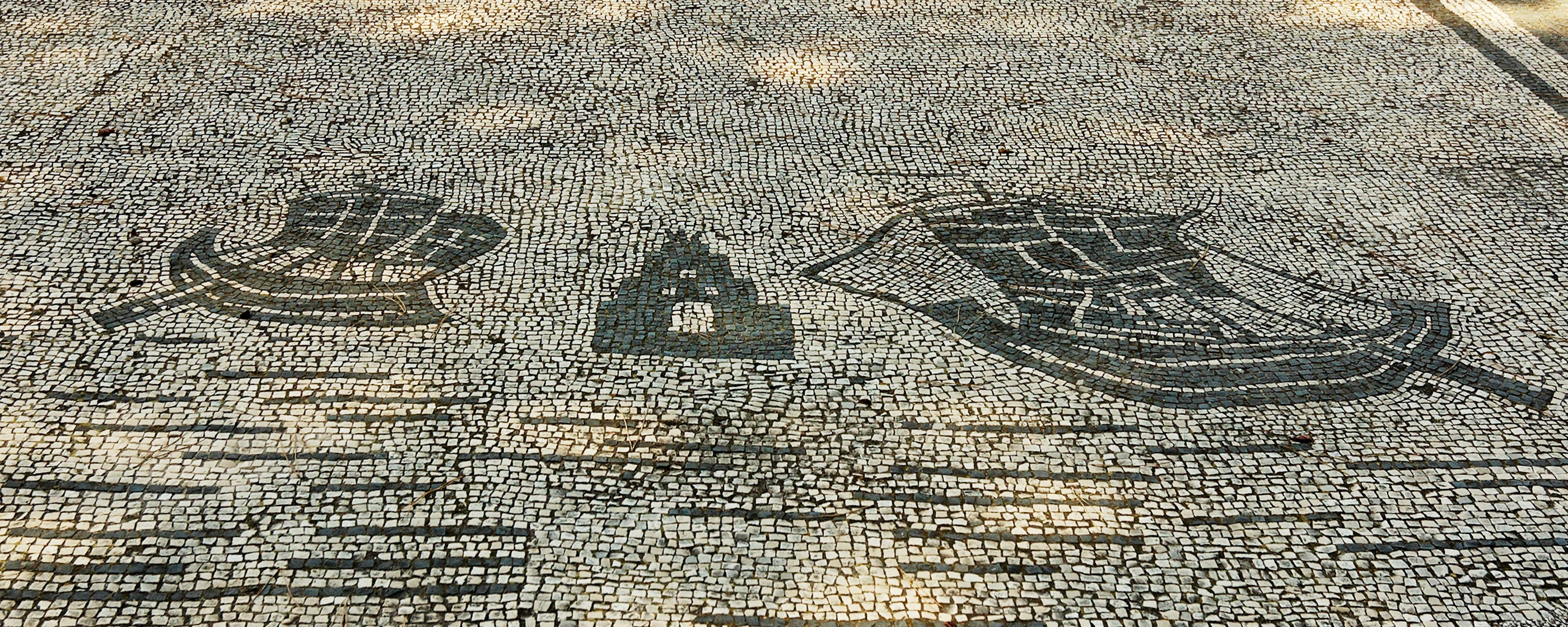 Statio 49 of the Piazzale delle Corporazioni, Ostia Antica, Latium, Italy. Part of mosaic with two ships and a lighthouse.